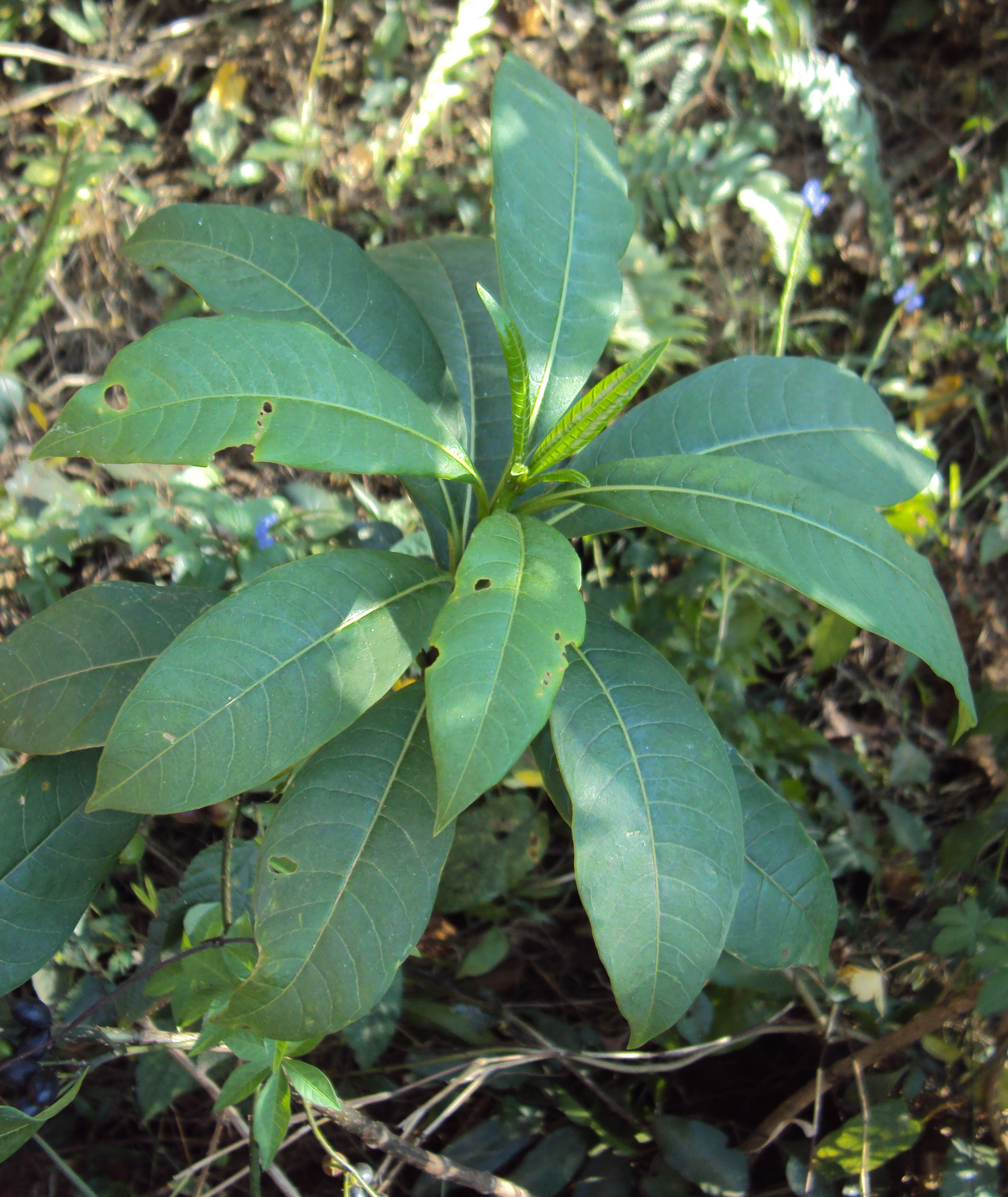 Rauvolfia verticillata